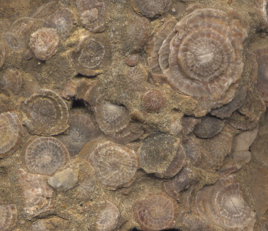 the fossils in thsi pictures are assilina, not nummolitics, have a look of the spires.